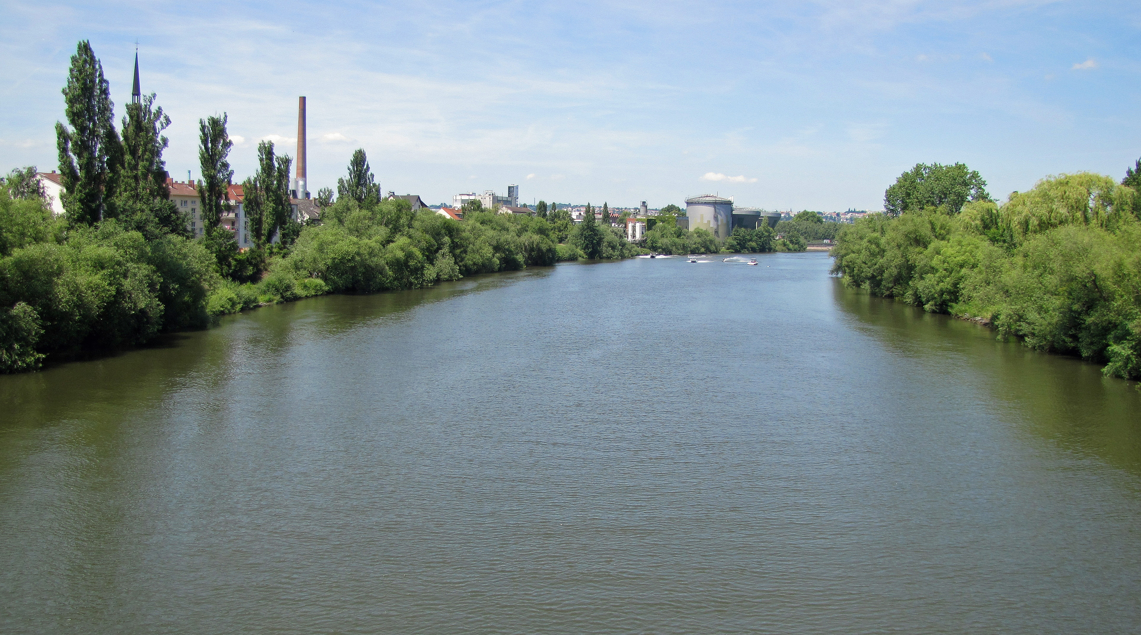 The "Main", up the river, between "Arthur-von-Weinberg-Steg" and "Mainkur". Left the riverbank of Frankfurt-Fechenheim, after trees are trimed.